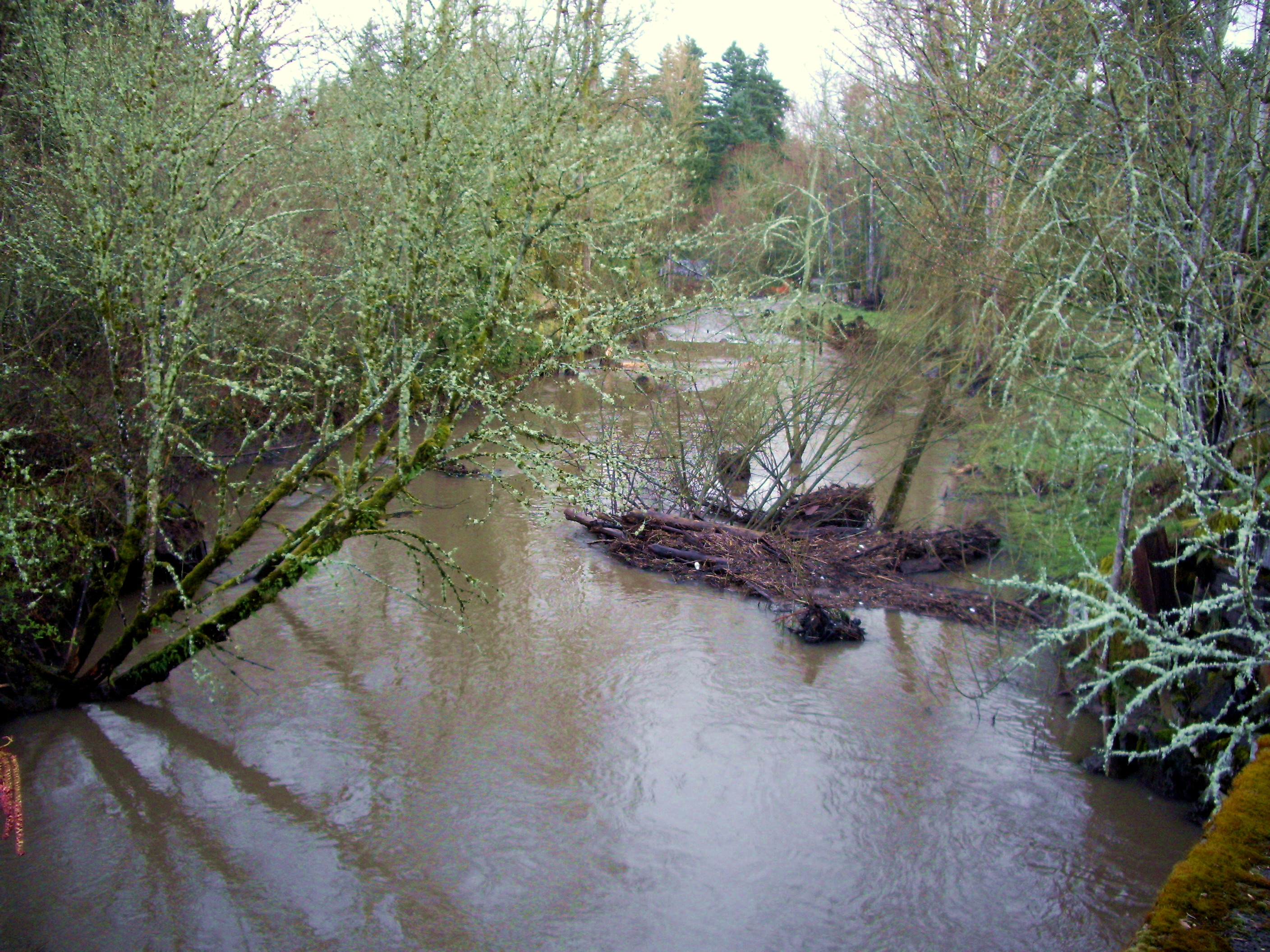 Johnson Creek in line with SE 41st Street where the creek crosses the Springwater Corridor and enters Tideman Johnson Park.